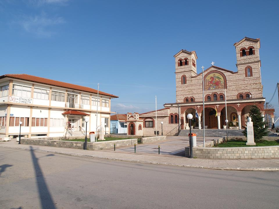 Saint Demetrius Church in Neos Skopos